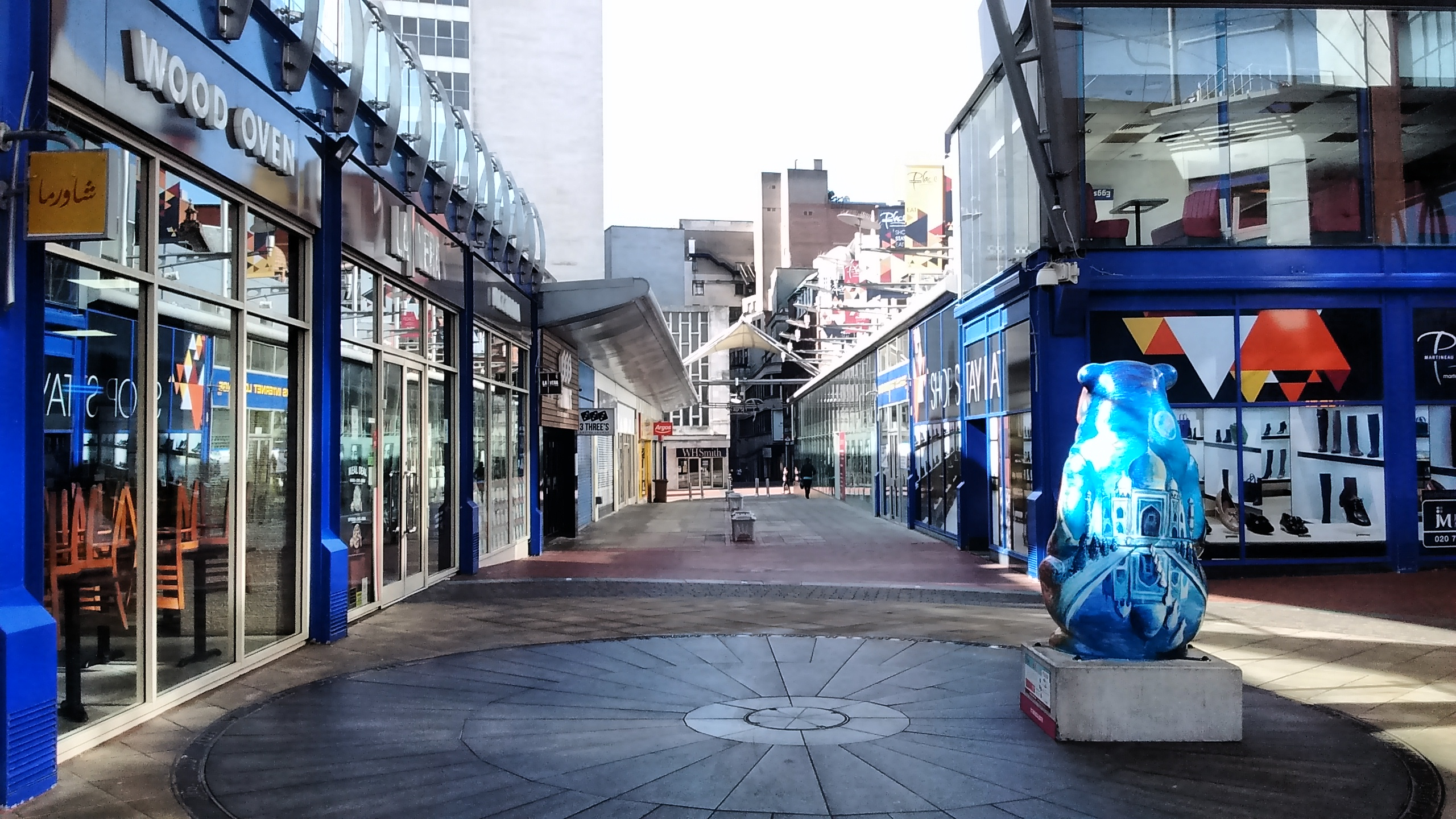 Small shopping centre including restaurant and retail units